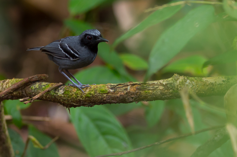 Myrmoborus myotherinus - Black-faced Antbird